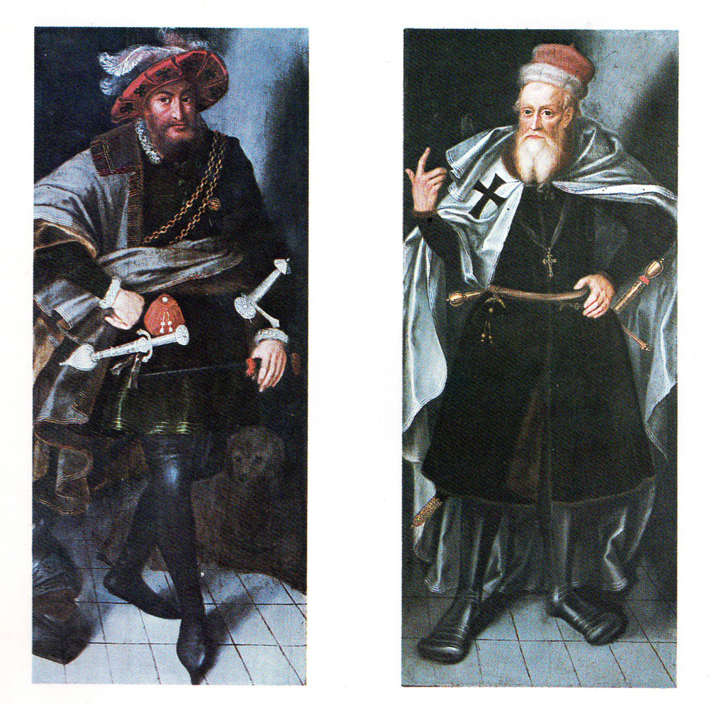 Margrave Waldemar of Brandenburg and the Grand Master of the Teutonic Order, Winrich von Kniprode, in the gallery of founders and benefactors of Oliwa